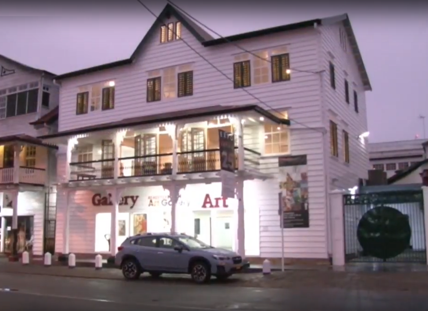 Readytex Art Gallery - art gallery in Paramaribo